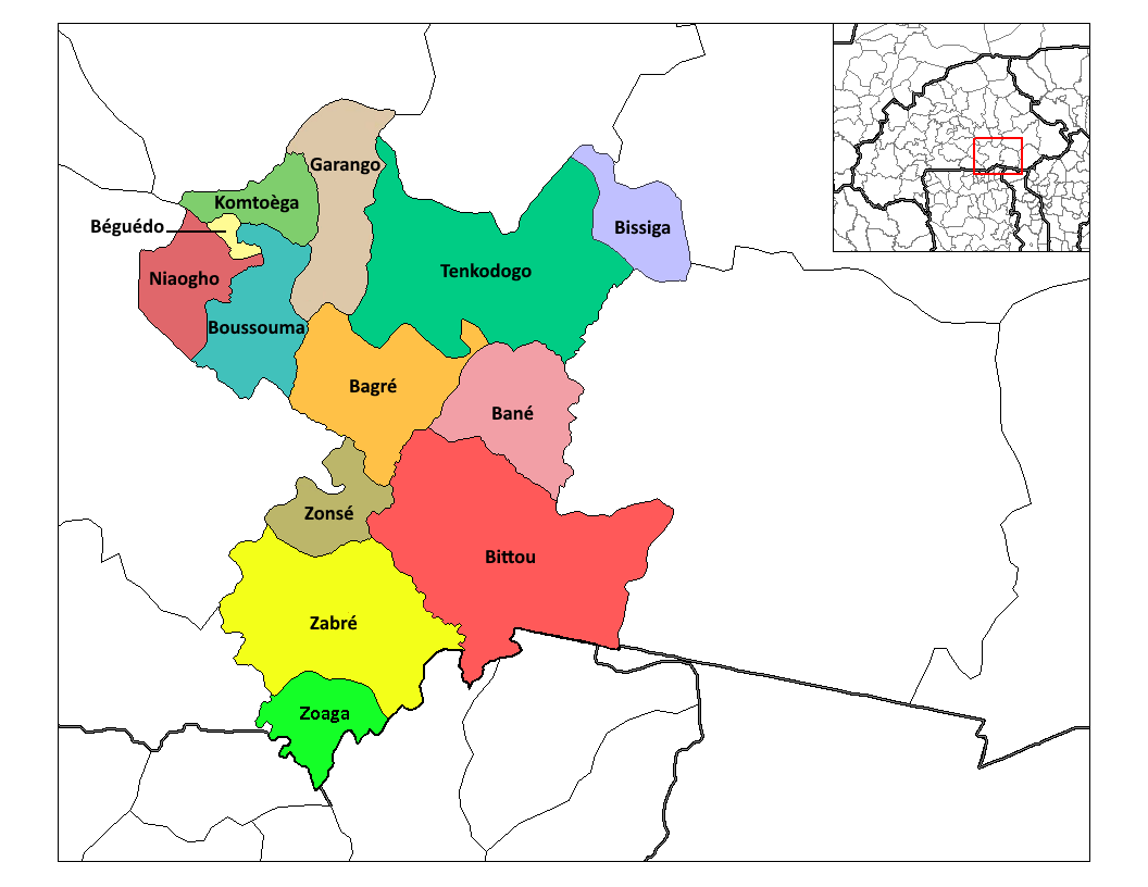 This map has been uploaded by Osiris fancy from to enable the Wikimedia Atlas of the World. Original uploader to was Rarelibra. Osiris fancy is not the creator of this map. Licensing information is below. Map of the departments of Boulgou province in Burkina Faso. Created by Rarelibra 03:12, 30 September 2006 (UTC) for public domain use, using MapInfo Professional v8.5 and various mapping resources.